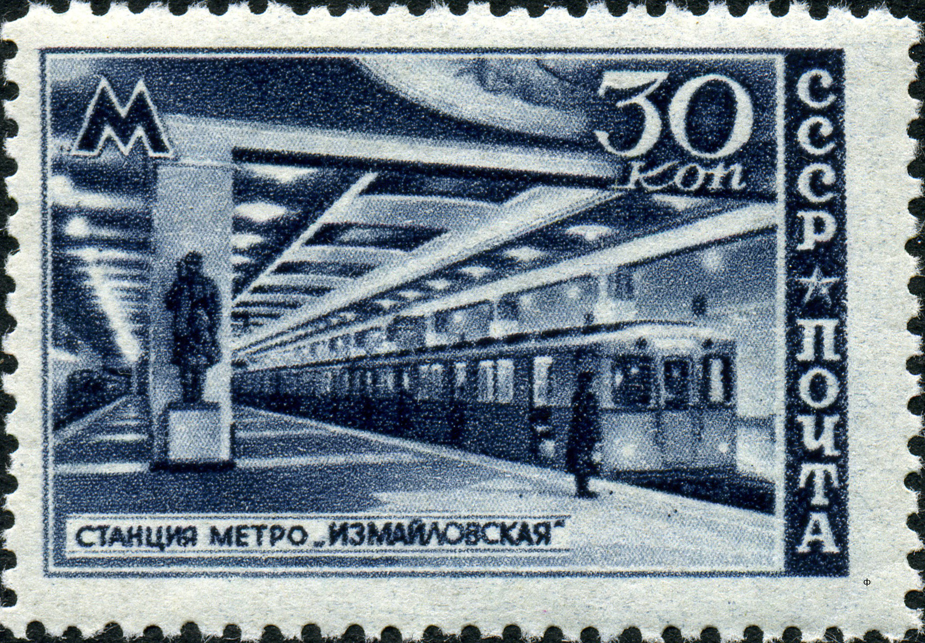 Stamp of the Soviet Union, Izmaylovskaya (Moscow Metro station), 1947, CPA 1148.